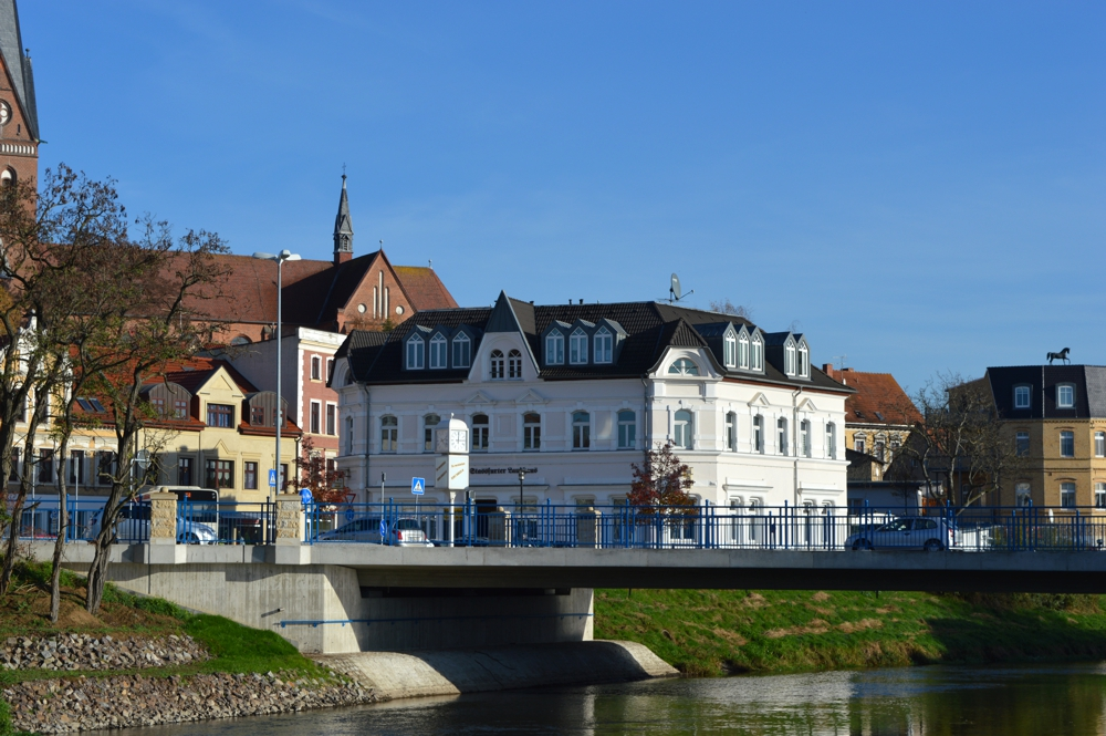 City view of Staßfurt